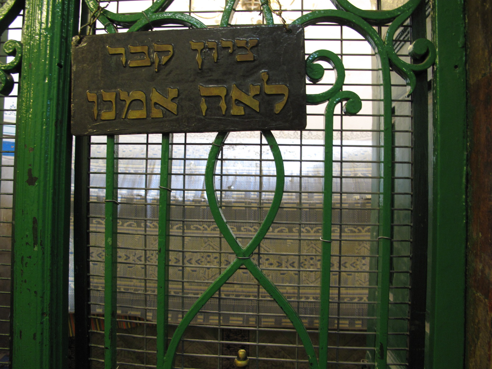 Cenotaph of Leah Photo taken by myself in the Cave of the Patriarchs (Hebron) on October 25, 2010 The Hebrew text on the sign reads: ציוּן קבר לאה אמנו 'The grave marker of our mother Leah'.